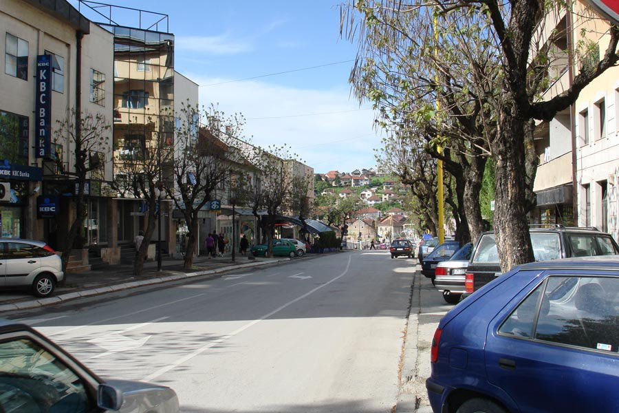 Улица Кнеза Александра код хотела, Горњи Милановац.